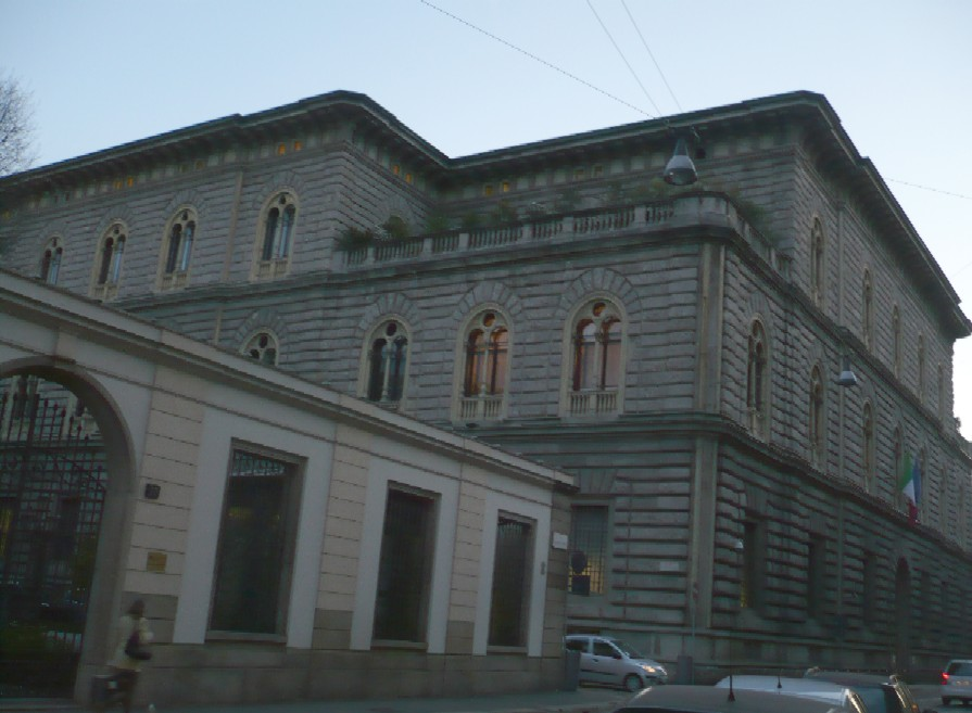 Ca' de Sass, historical headquarters of Cassa di Risparmio delle Provincie Lombarde, now headquarters of Intesa San Paolo, arch. G. Balzaretto, 1870